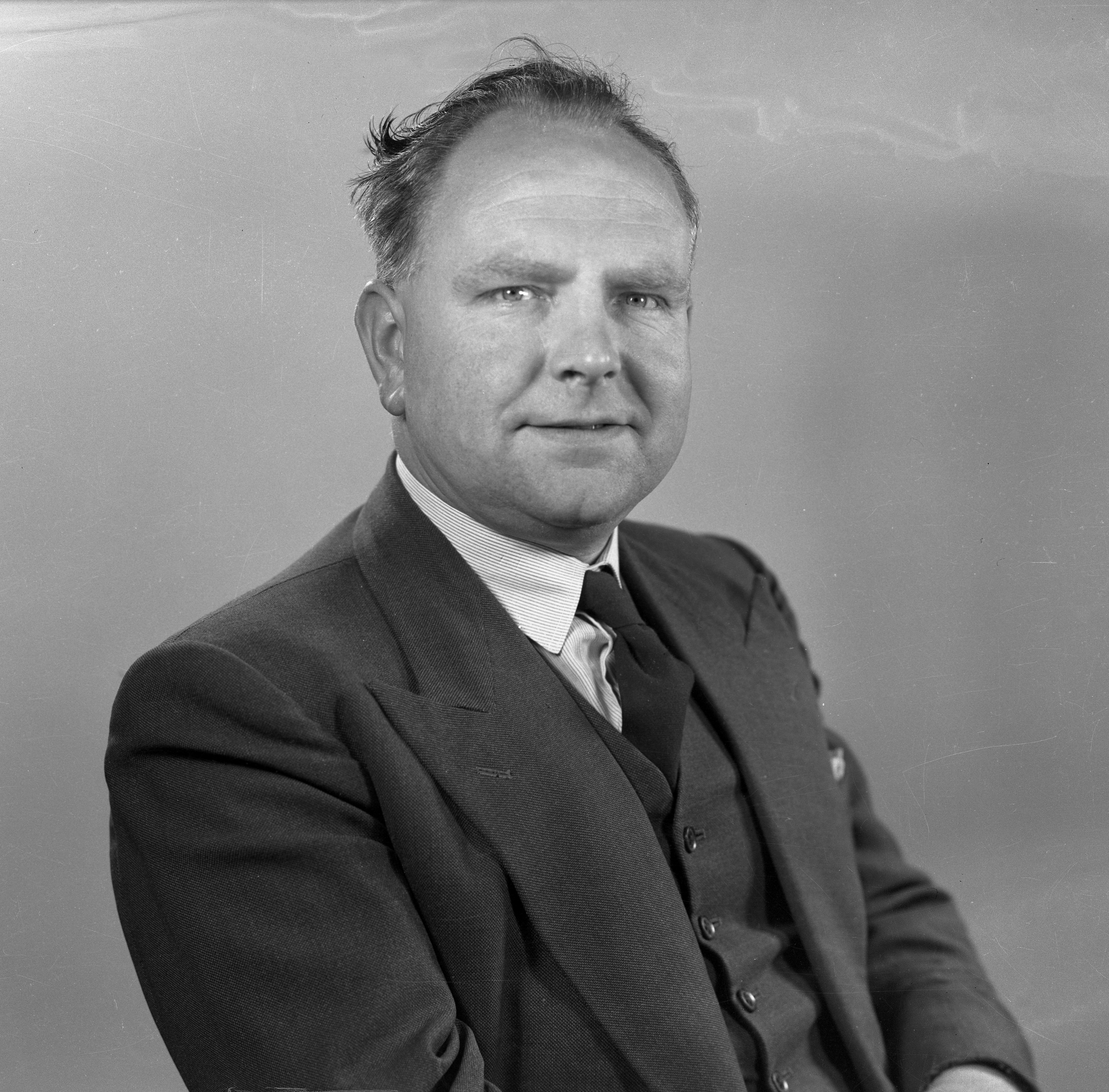 Studio portrait of Thomas W. Walker, Professor of Soil Science at Canterbury Agricultural College 1952–58 and again from 1960 until he retired in 1979.